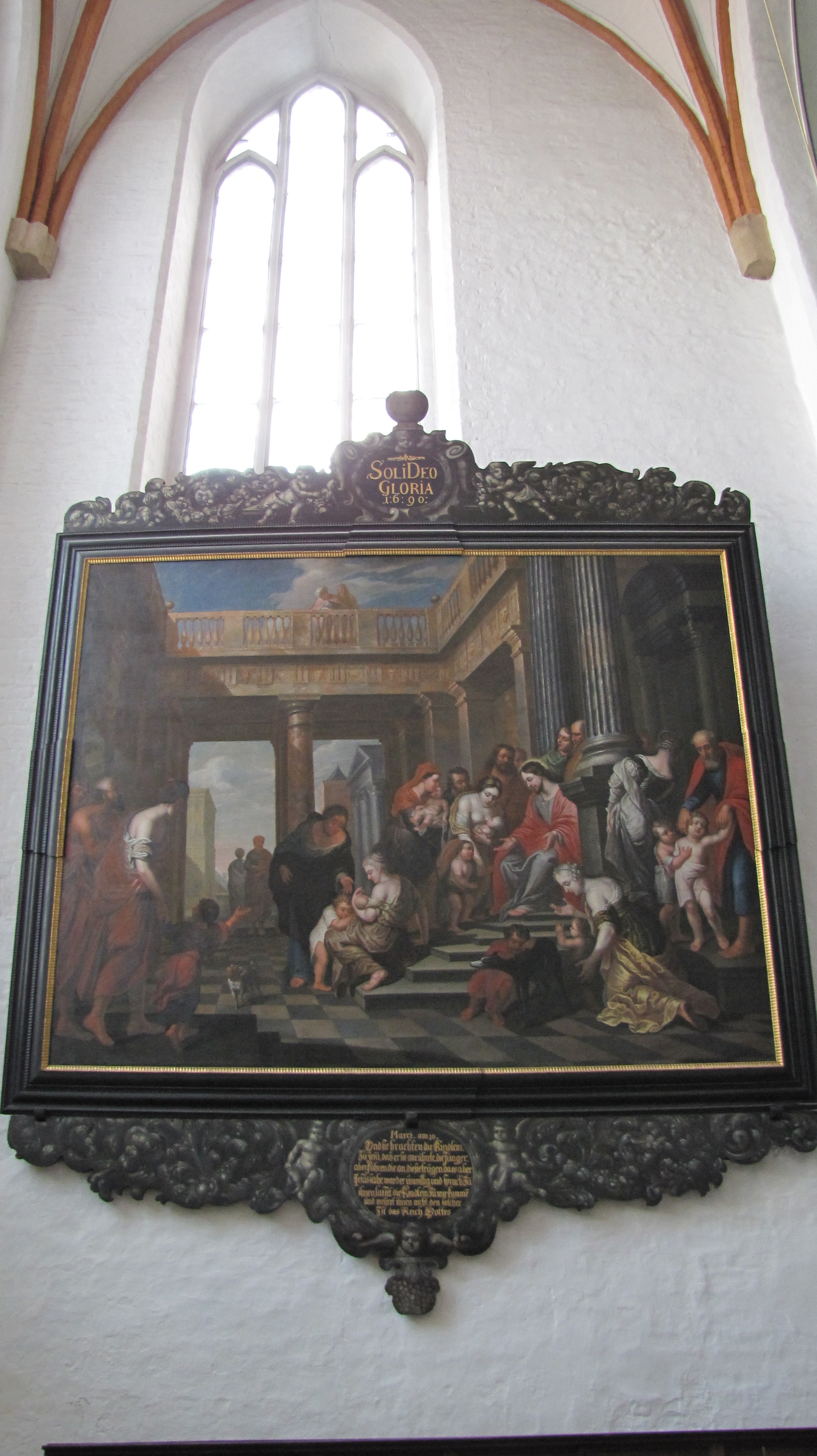 Johann Heinrich Schwar(t)z: Jesus segnet die Kinder (Jesus blesses the children) 1690, St. Jakobi Lübeck